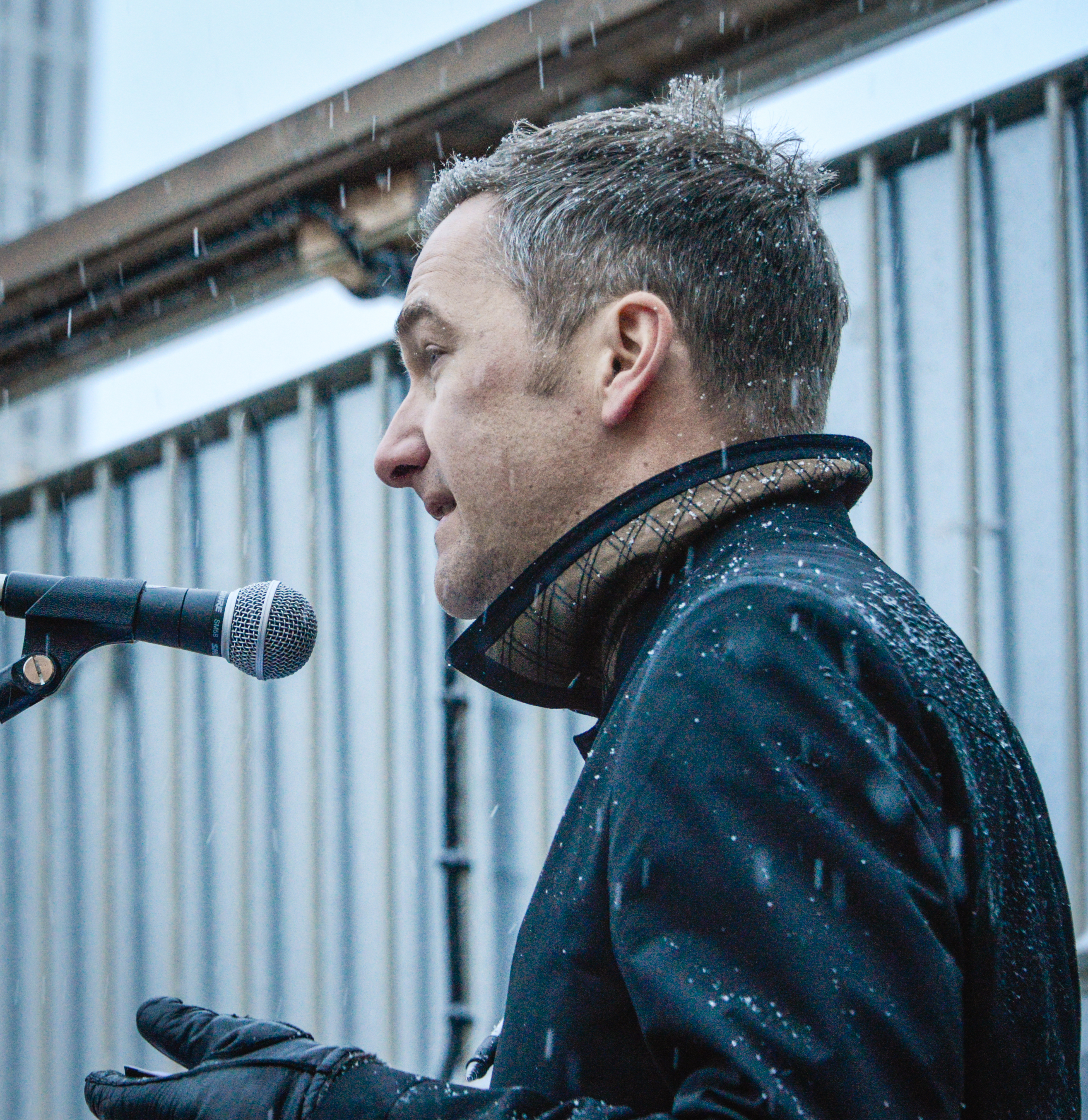 Stockholm rally in support of the victims of the 2015 Charlie Hebdo shooting.